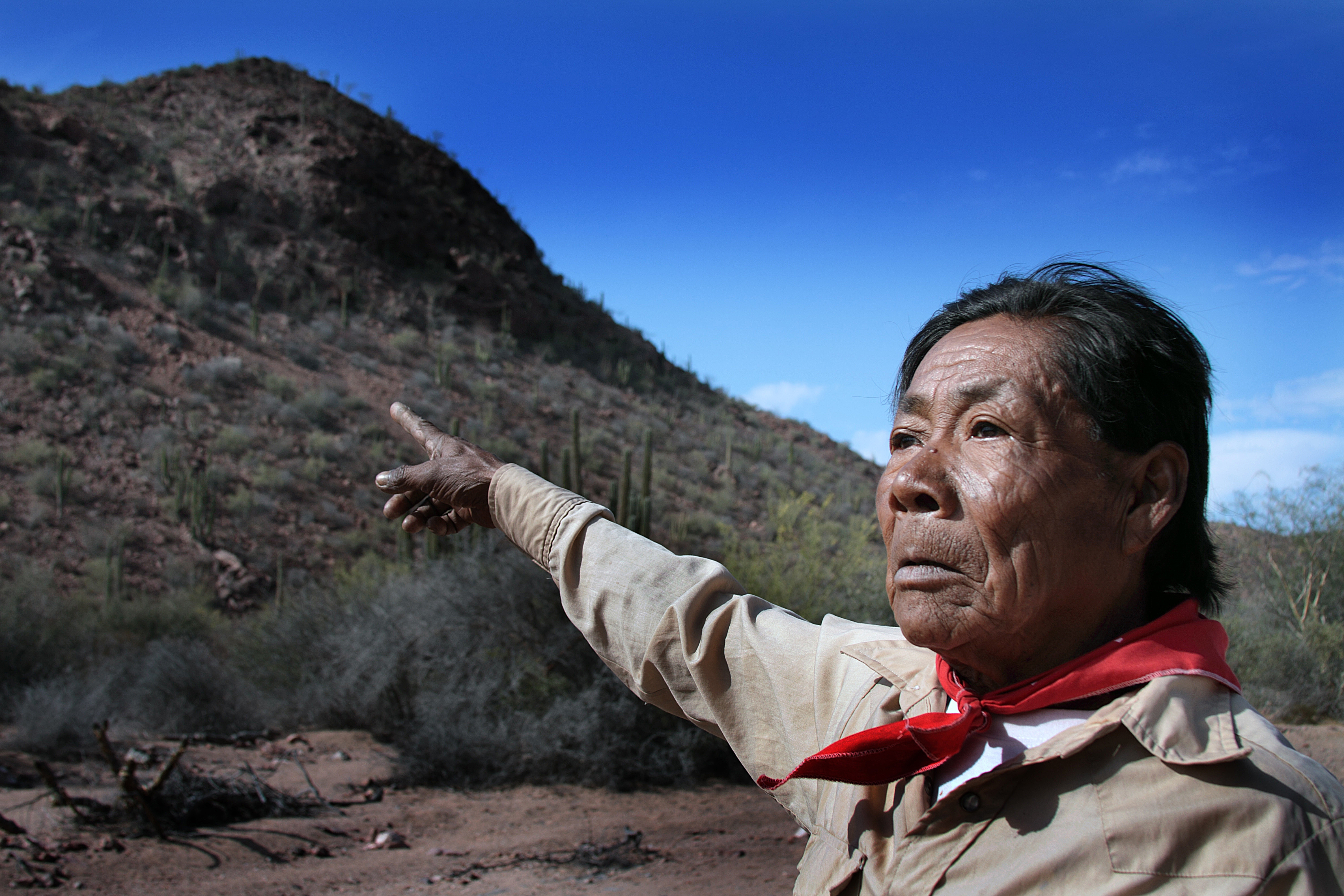 Chapito, a Seri shaman from Punta Chueca, Sonora, Mexico. Chapito wanted to be photographed this way, pointing toward the mountain caves.